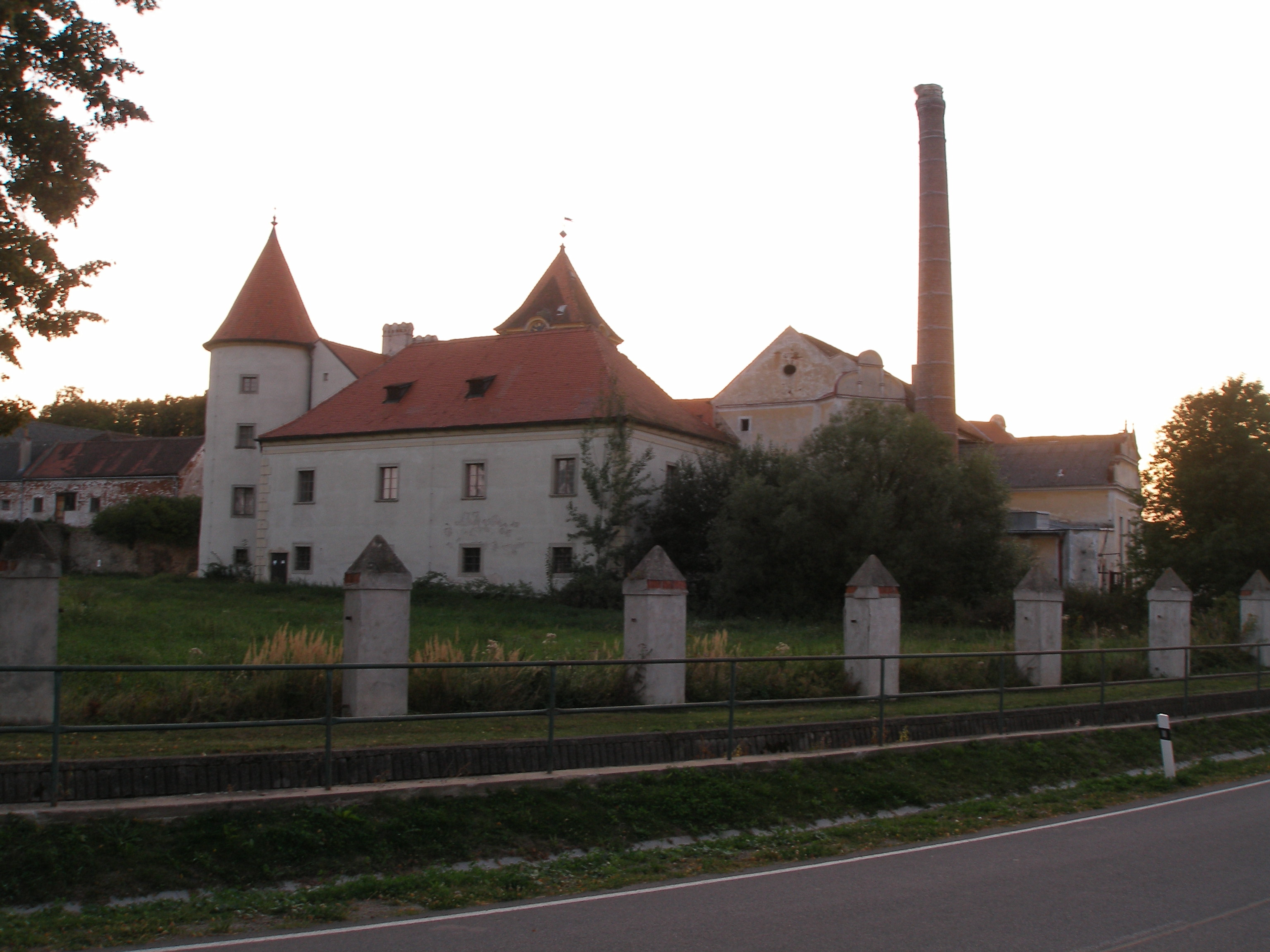 Písečné (Jindřichův Hradec district), the castle, the North-Eastern view